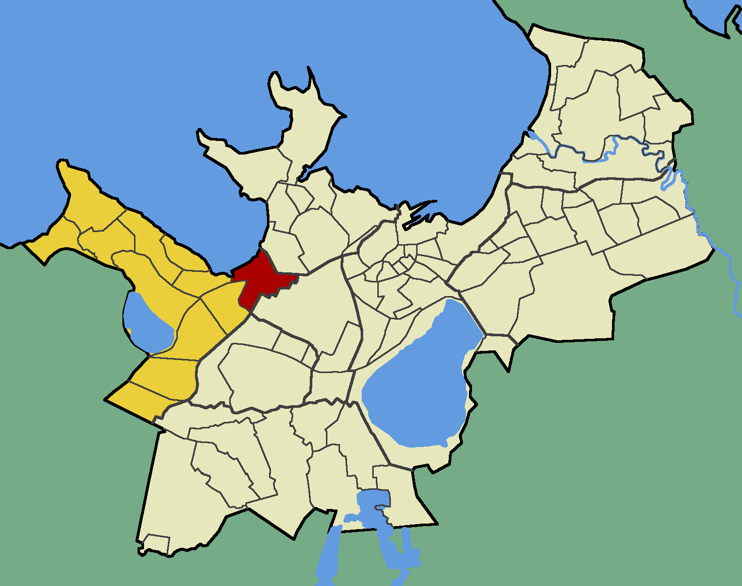 Map of Tallinn (Estonia) with borders of the quarters, Haabersti district and Mustjõe quarter emphasised